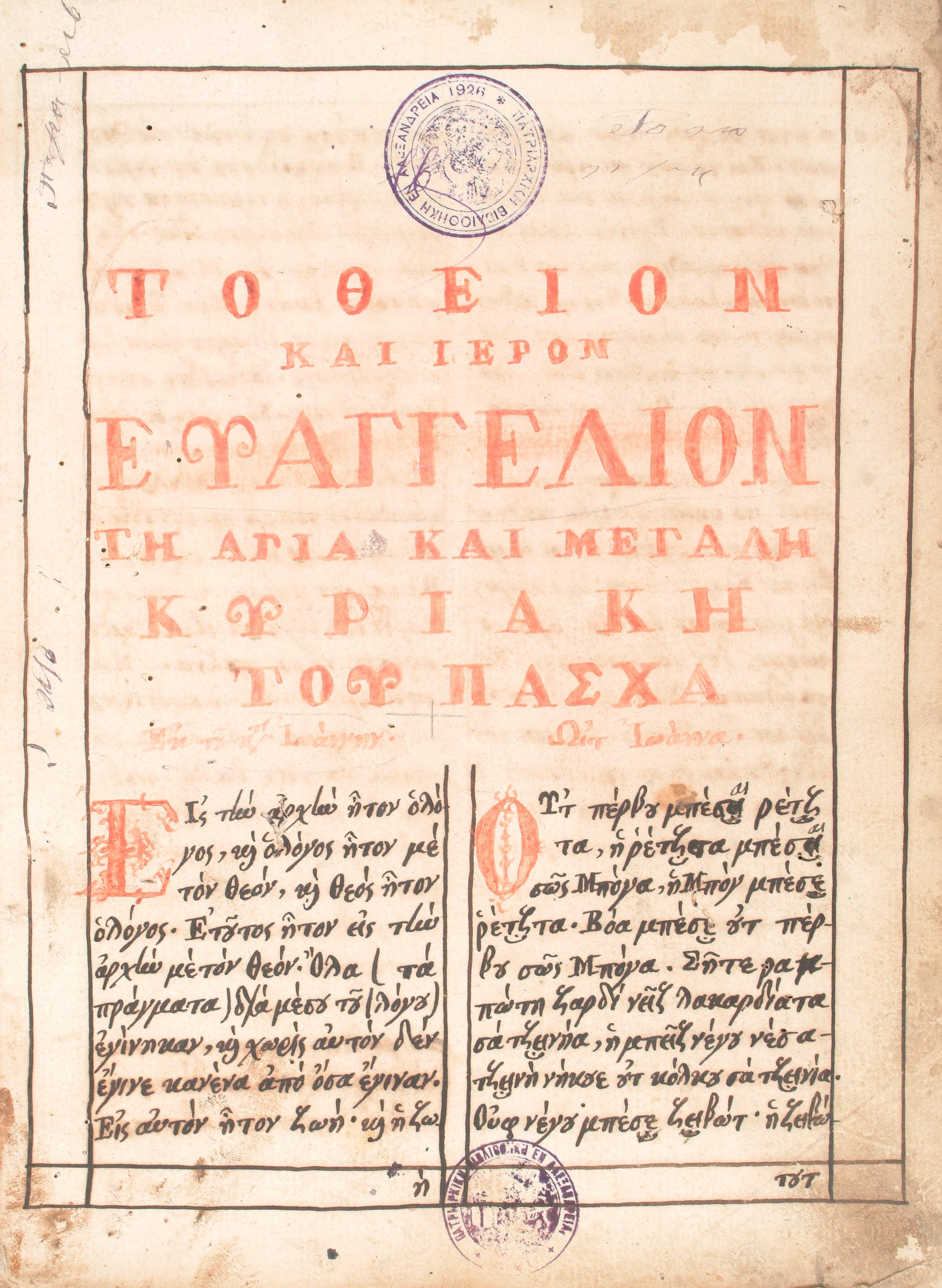 Konikovo Gospel, page 01